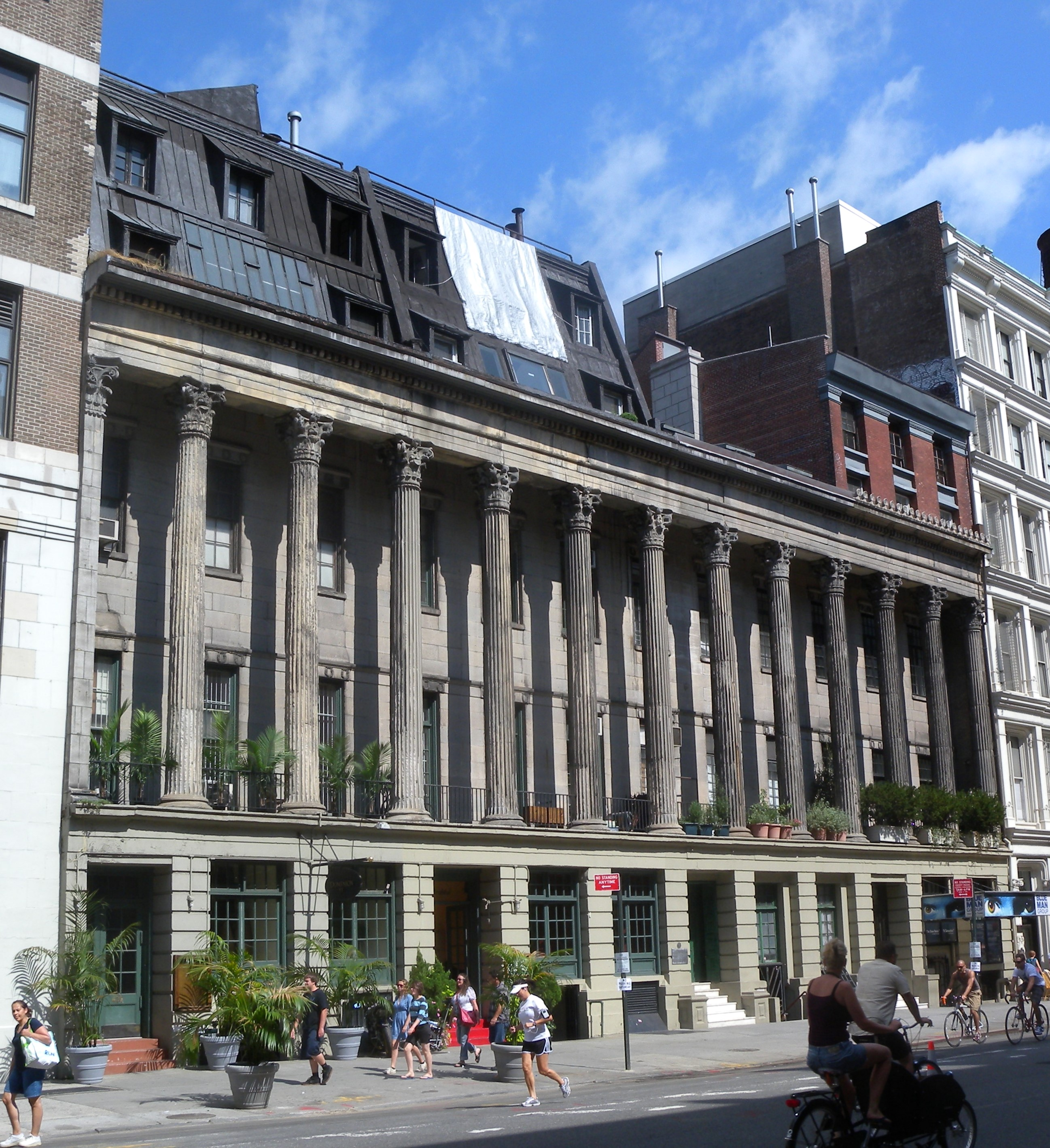 Looking northwest from Lafayette Street at Colonnade Row on a sunny morning.